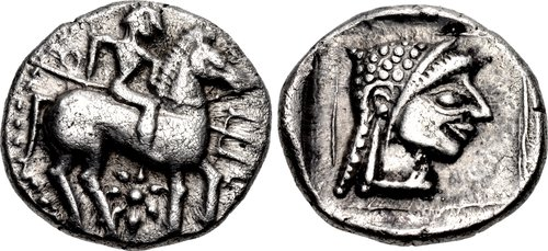 MACEDON, Potidaia. Circa 525-500 BC